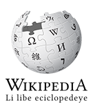 Wikipedia logo 2.0